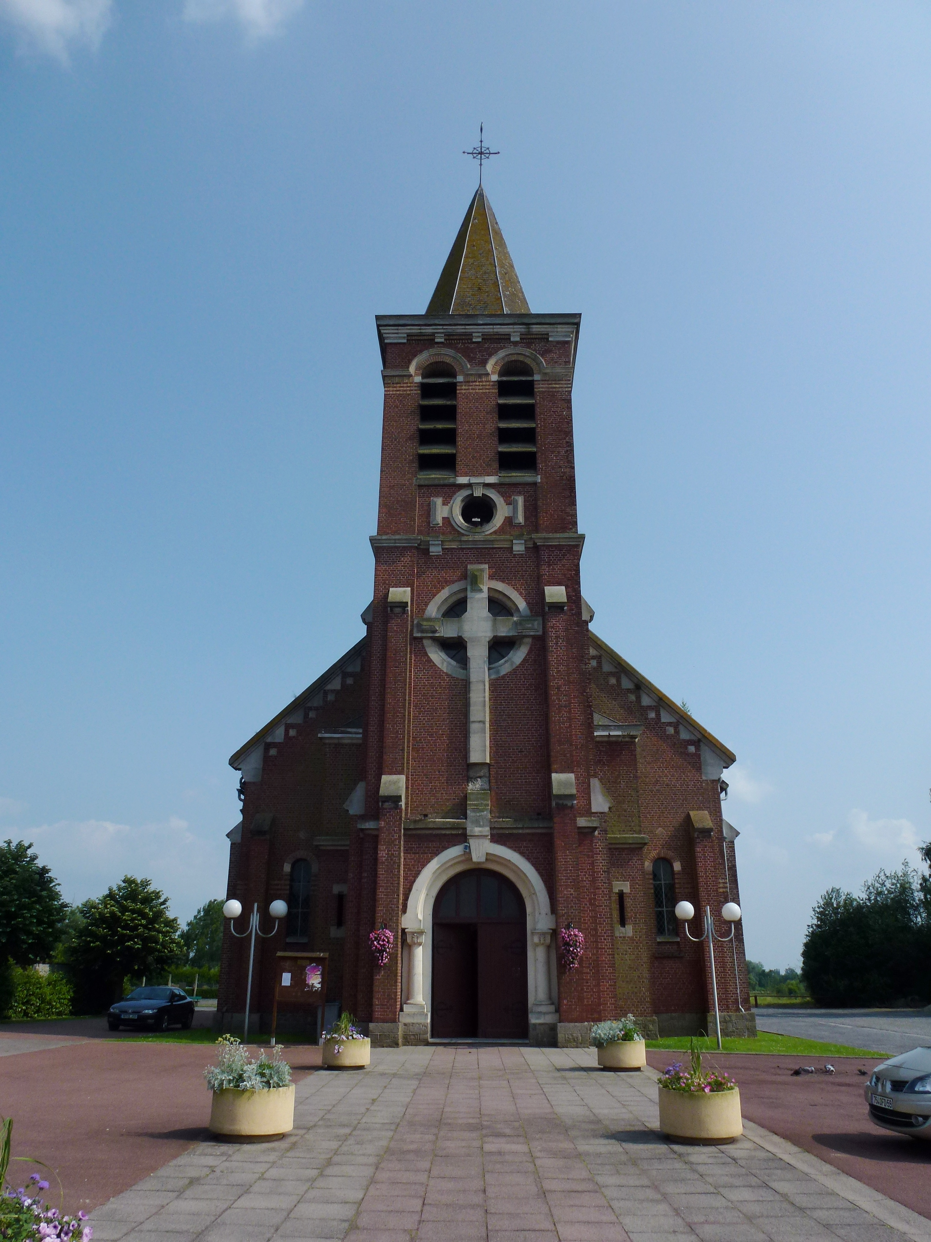 Nivelle (Nord, Fr) église, extérieur